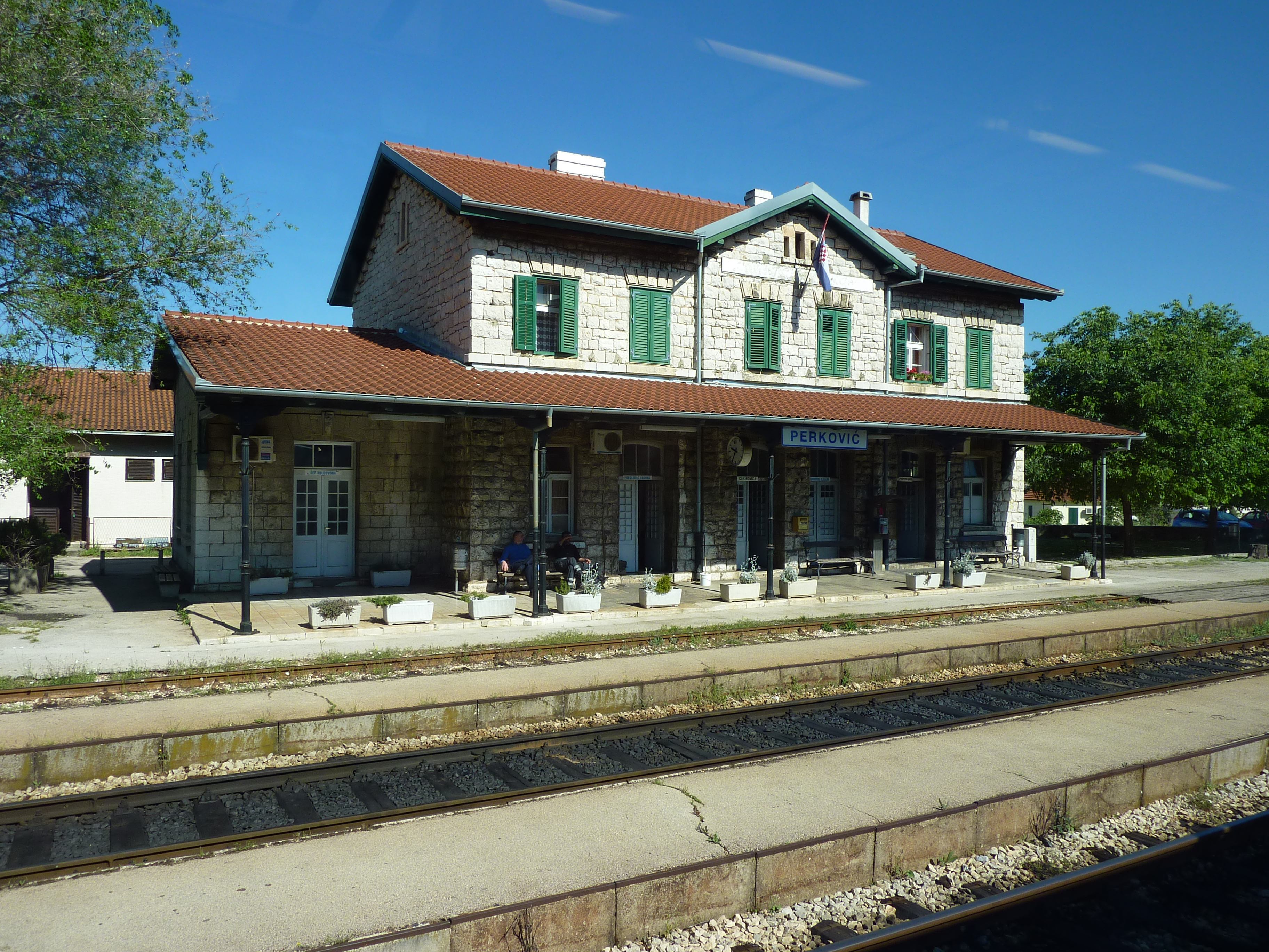 Railway station Perkovič, in Croatia